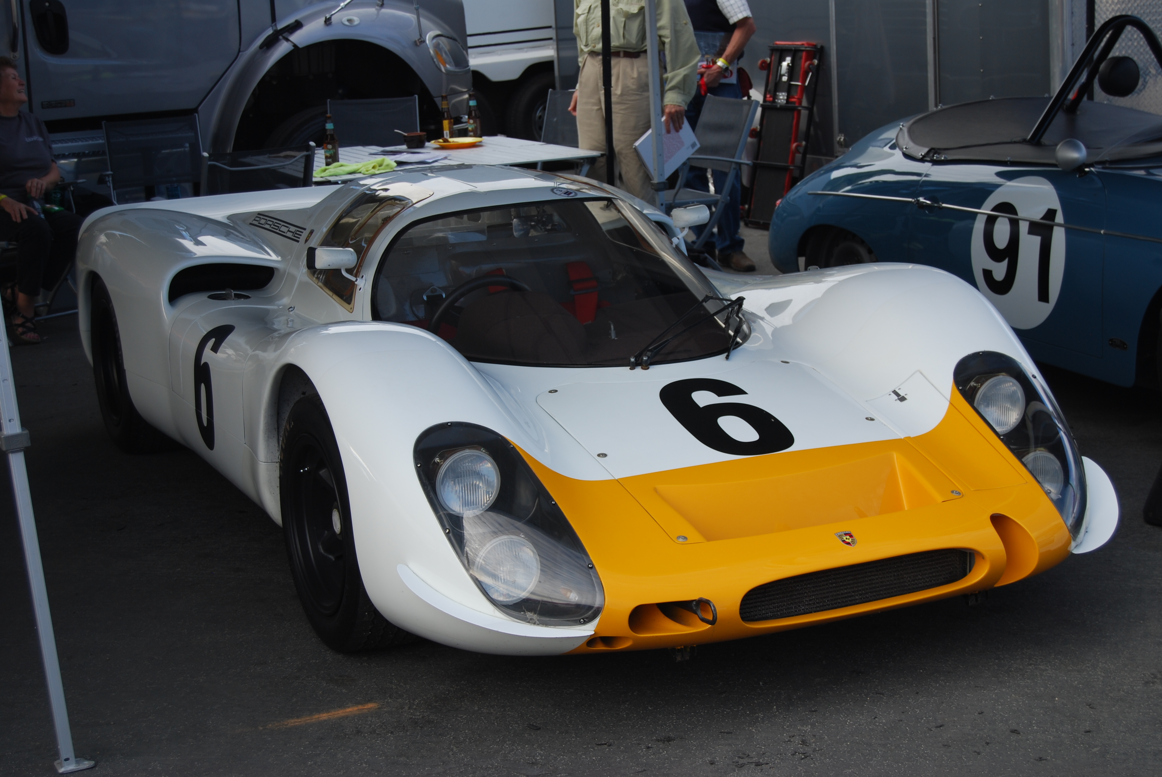 Porsche 908 Coupé (chassis number 908-10)